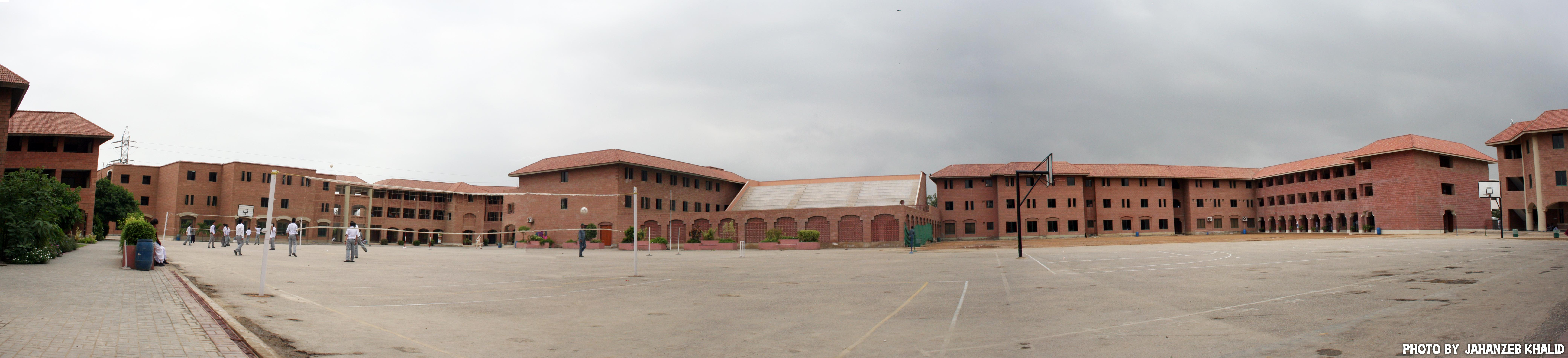 The City School PAF Chapter's Campus (as of 25th August 2009)